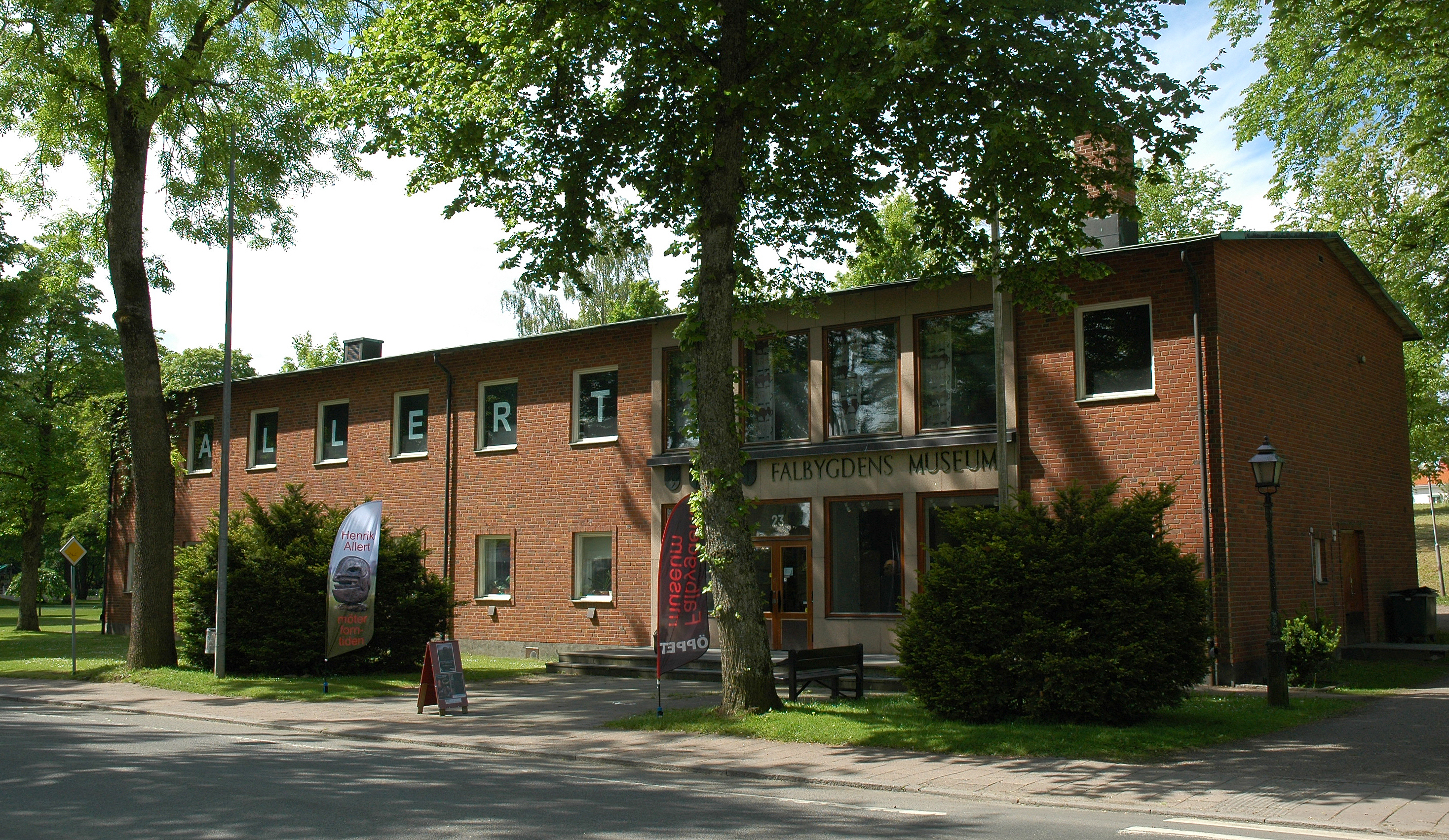 Falbygdens Museum seen from the street. Falbygdens Museum is situated at Sankt Olofsgatan 23 in Falköping, Falköping municipality, former Skaraborg county, Västergötland, Västra Götaland county, Sweden.